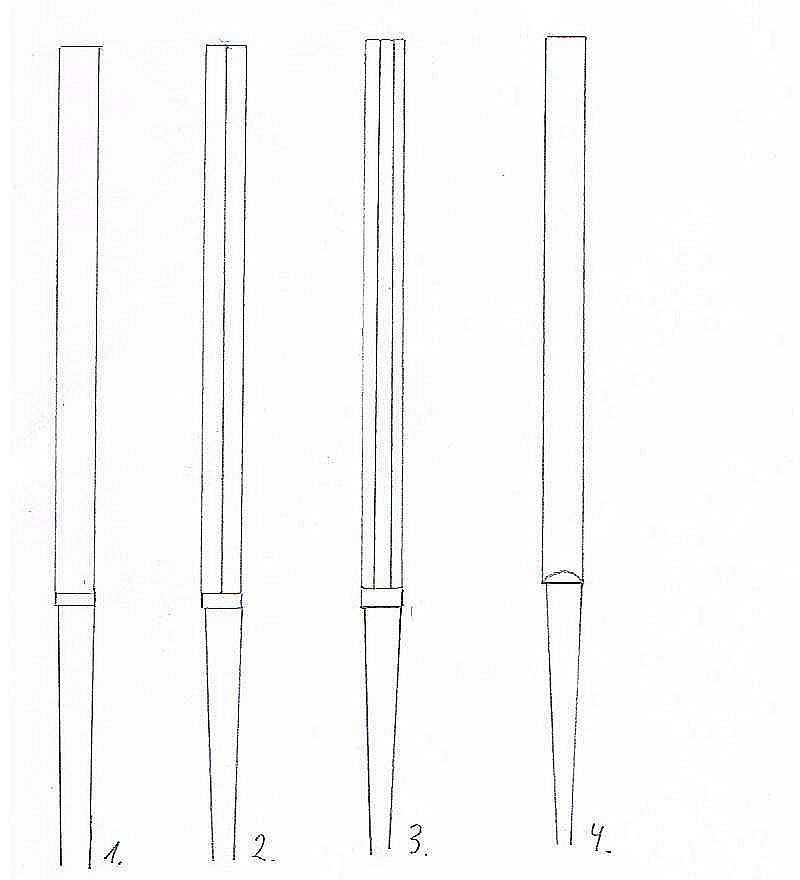 Types of the Mune at japanese swords